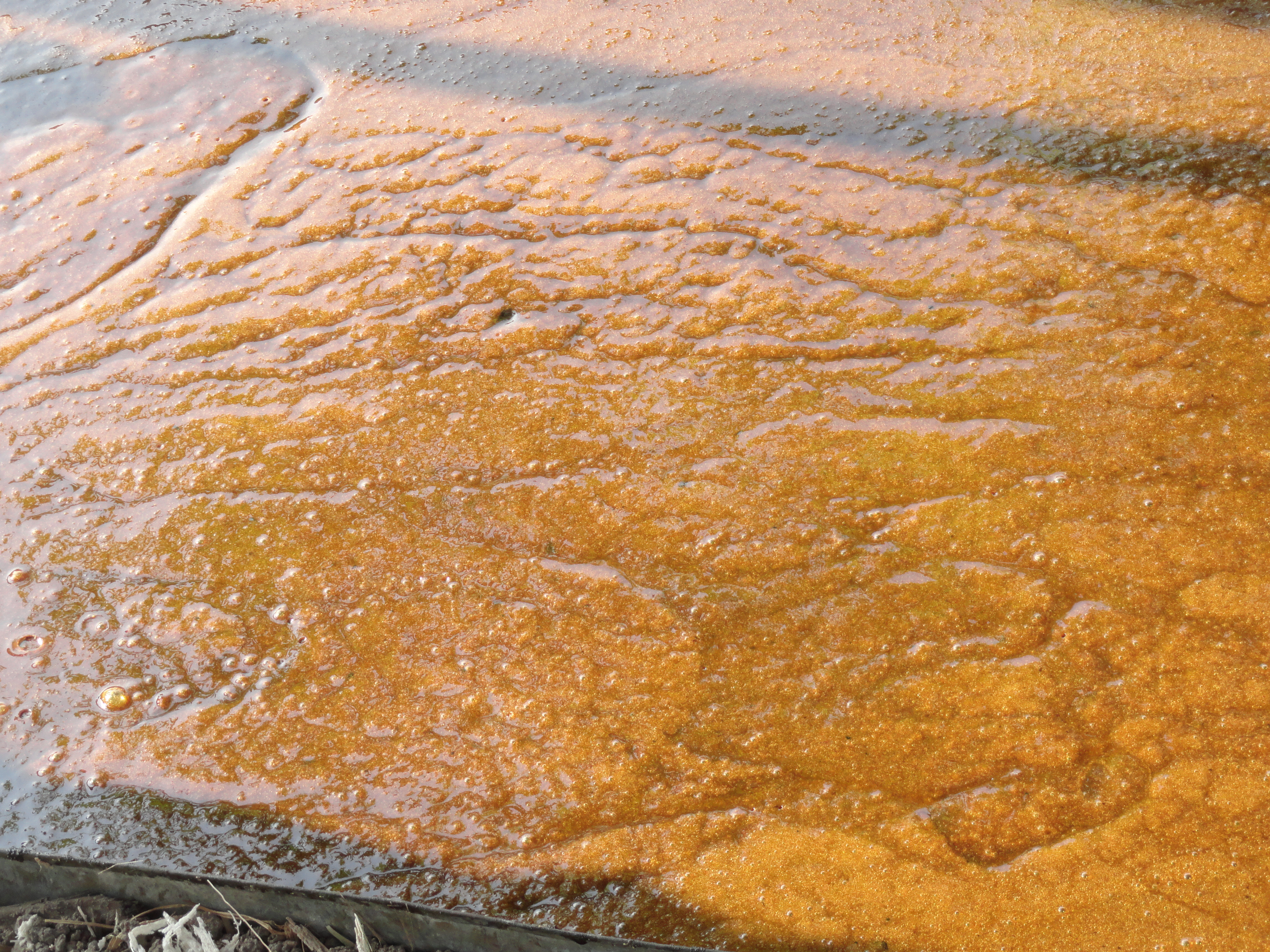 Bellam paakam in Done. picture taken at Damal cheruvu.